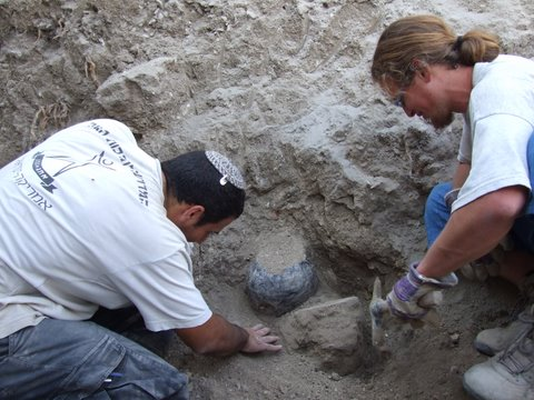 Pottery in Situ, Archaeology sites excavation